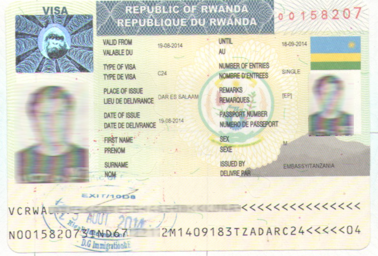 Rwanda Tourist Visa Sticker 2014.